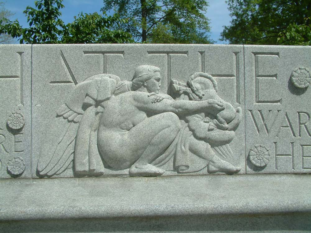 Firestone Memorial, Akron Ohio, USA, panel by Donald De Lue